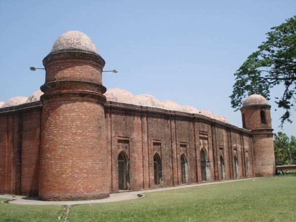 Bangladesh has three world heritage sites. The Shat Gombuj Mosque in Bagerhat is one of them. It is a 15th century Islamic edifice situated in the suburbs of Bagerhat (a district in Khulna Division), on the edge of the Sundarbans, some 175 km south west of Dhaka, the capital of Bangladesh. It is an enormous Moghol architectural site covering area 160×108 square feet. The mosque is unique in that, it has sixty pillars, which support eighty one exquisitely curved domes that have worn away with the passage of time. The structure of the building also represents the 15th century Turki architectural view. It is anticipated that before 1459 a greatest devotee of Islam named Khan Jahan Ali established this mosque. He was also the founder of Bagerhat district.